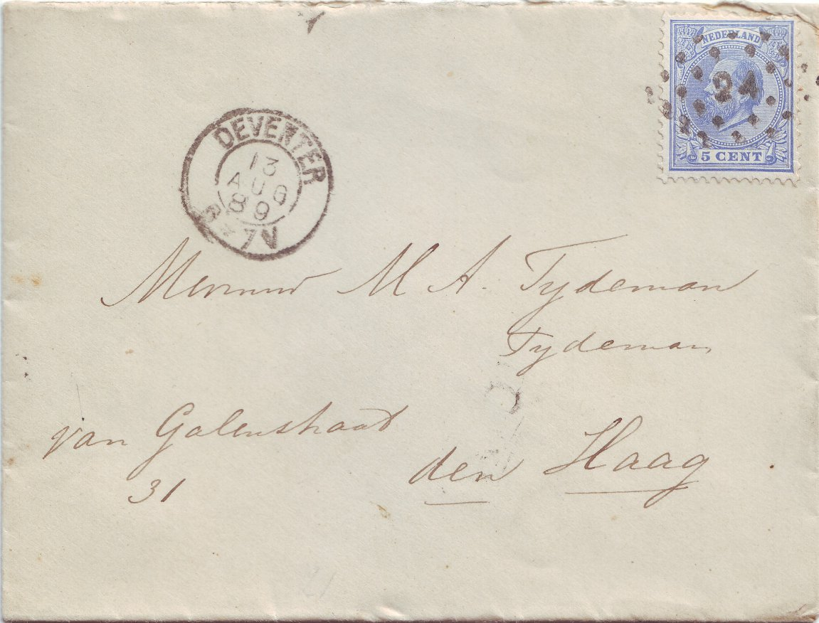 Letter from Deventer to The Hague, 13 August 1889, with numerical cancellation 24 and date stamp.